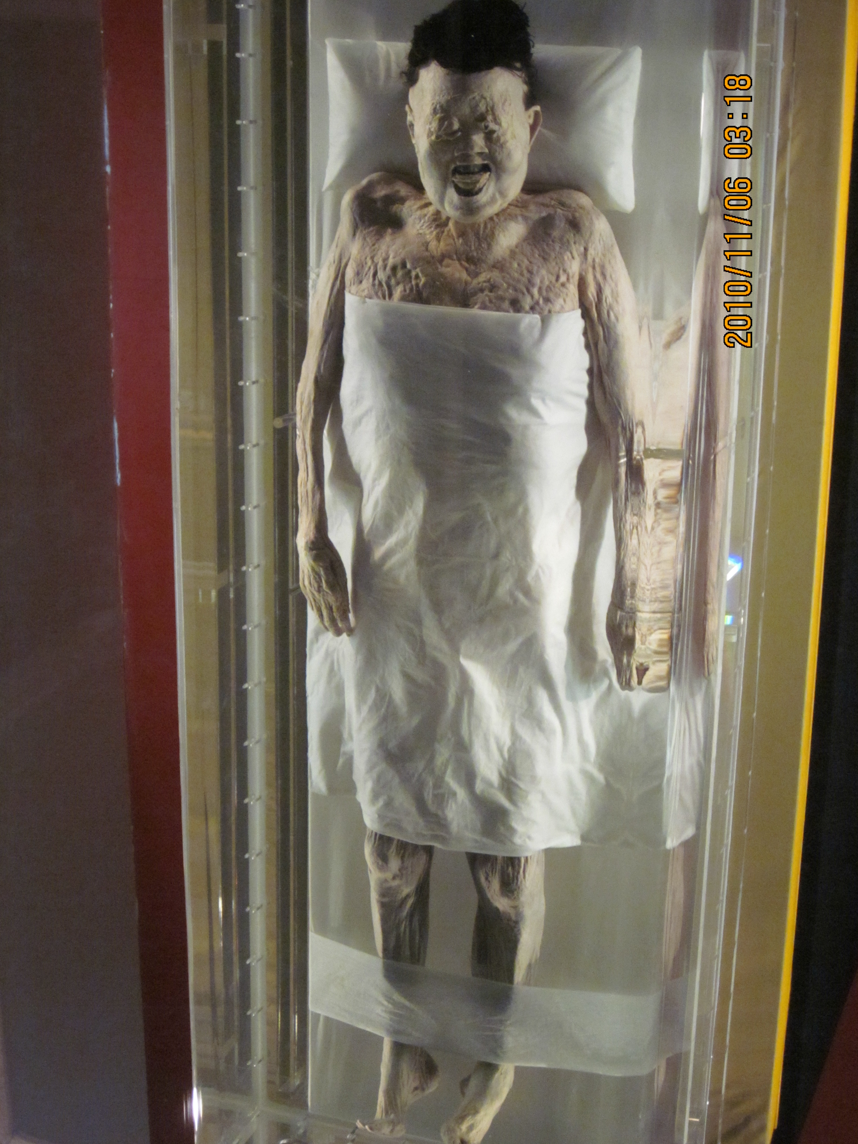 Xin Zhui (Chinese: 辛追), also known as lady Dai, was the wife of the Marquess Li Cang (利蒼) (d. 186 BCE), chancellor for the imperial fiefdom of Changsha during the Han Dynasty. Her corpse was found in 1971 near the city of Changsha.